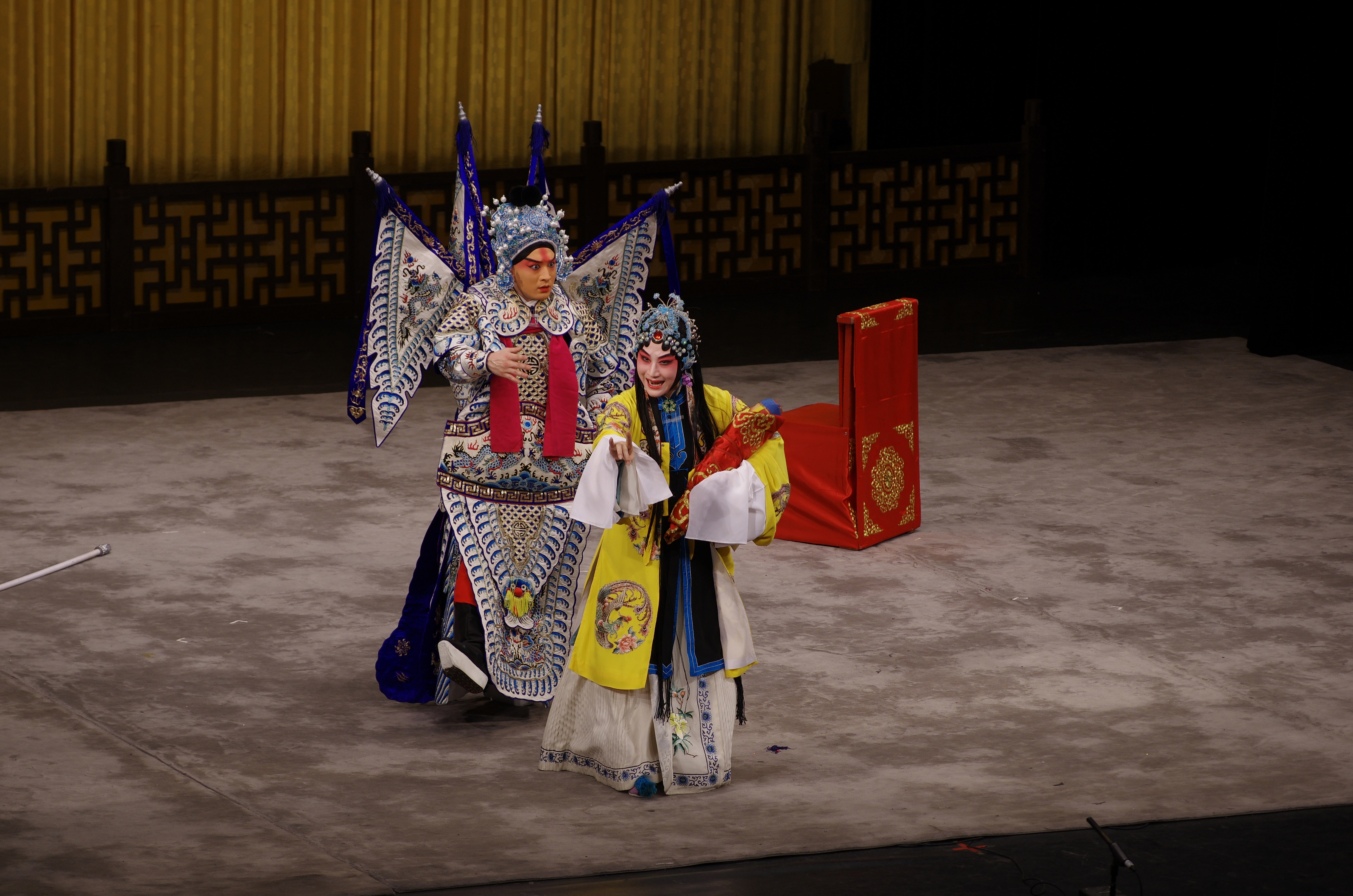 A Peking opera performance in Tianchan Theatre by Shanghai Jingju Theatre Company. Lady Mi is played by Guo Ruiyue (郭睿玥), and Zhao Yun is played by Hao Shuai (郝帅).